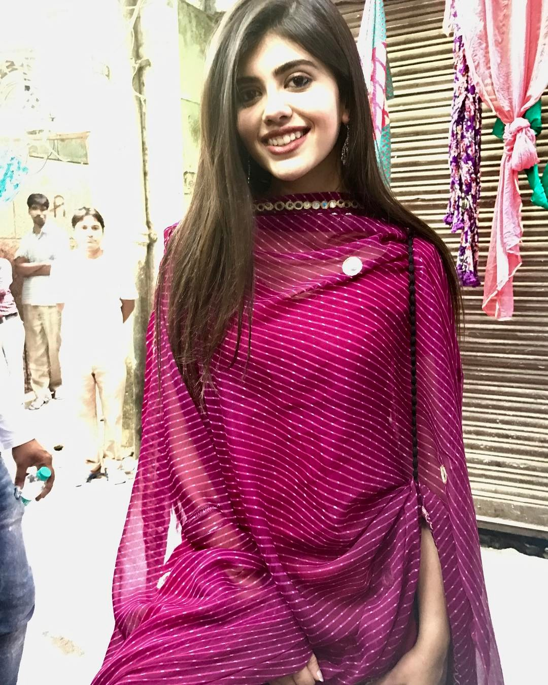 At the film shoot of Hindi Medium